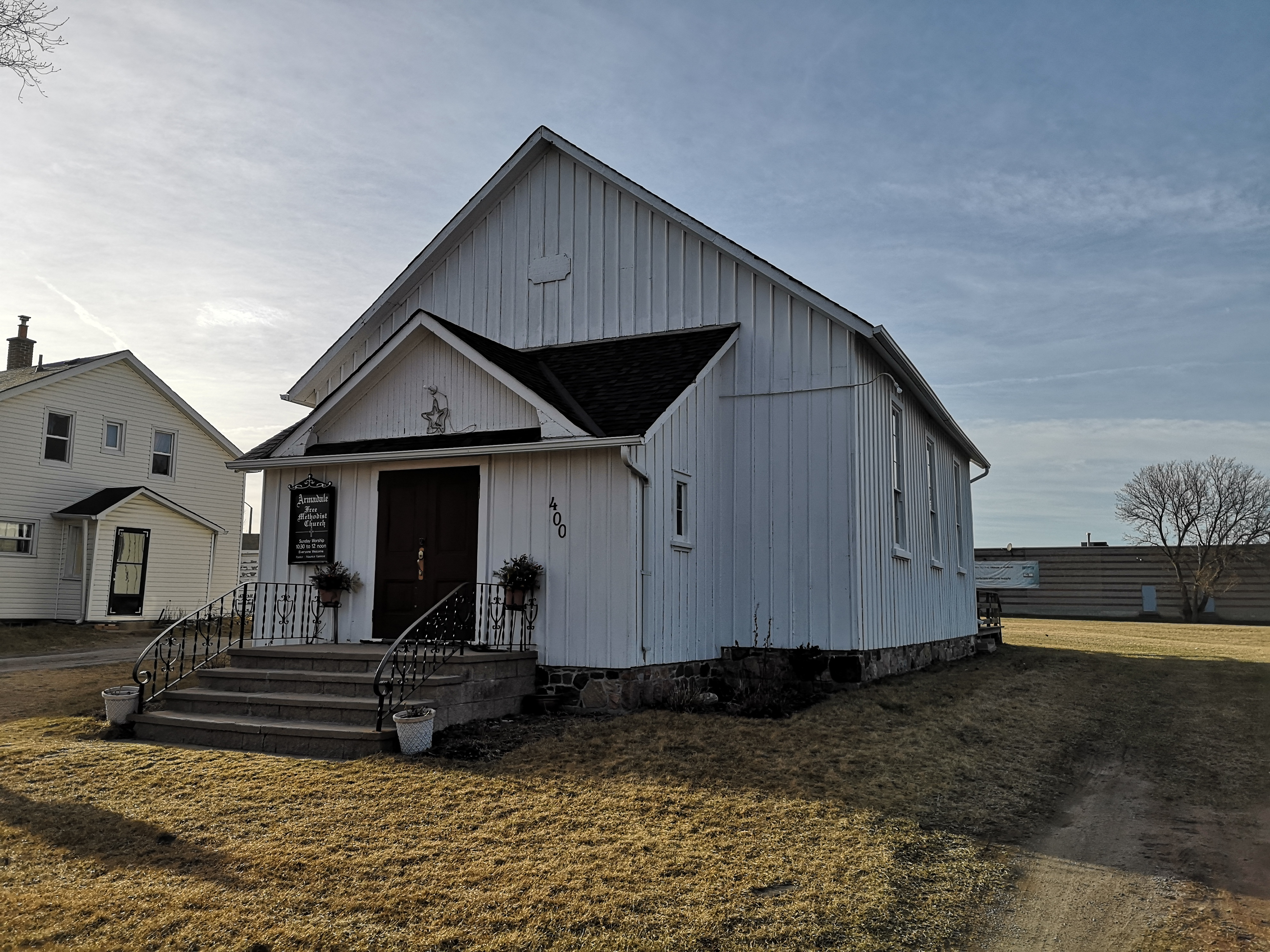 Armadale Free Methodist Church at 400 Passmore Avenue in Armadale, a neighbourhood of Scarborough, Toronto. The building was erected in 1880.